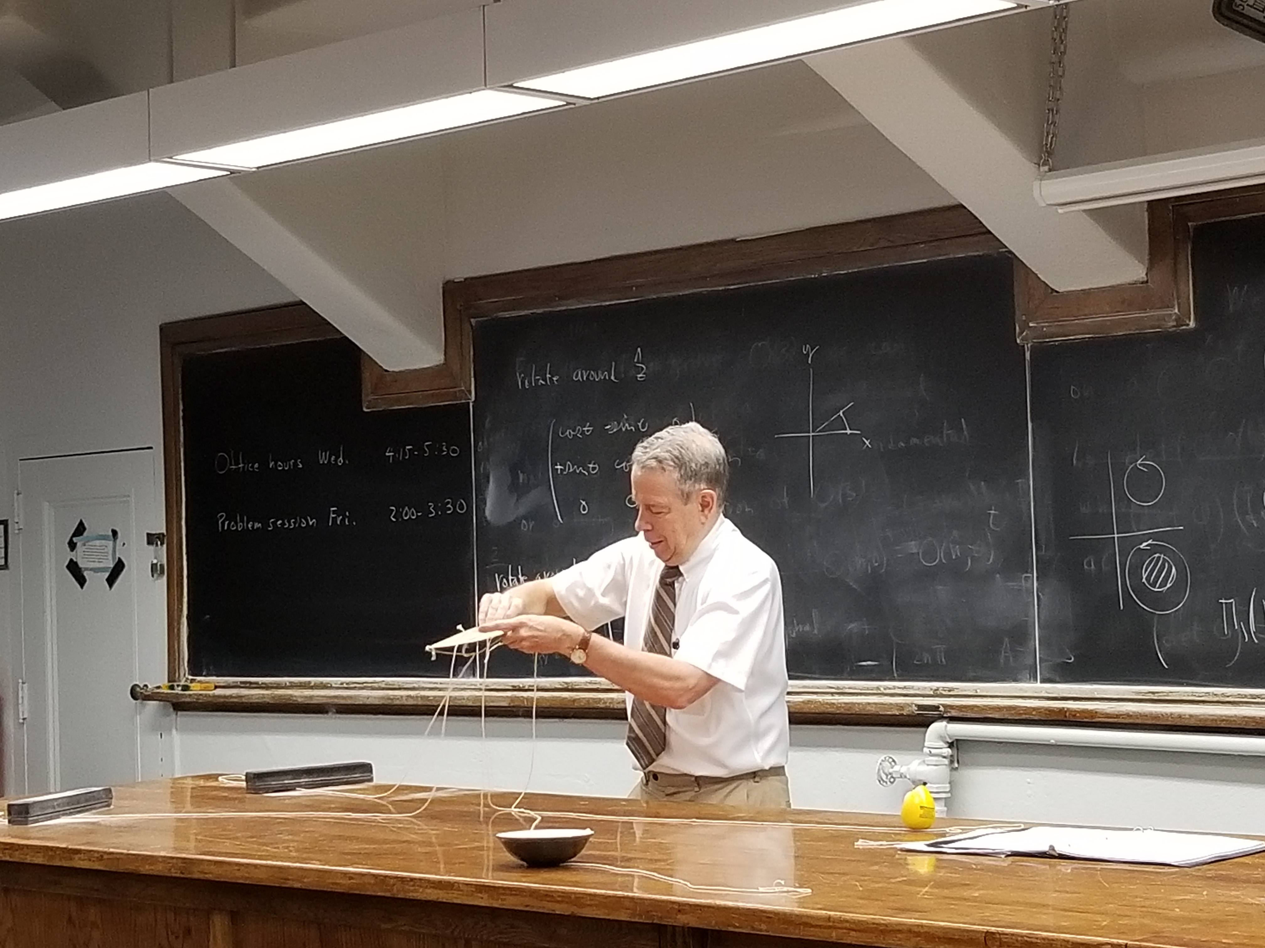 Professor Christ demonstrated that the fundamental group of SO(3) is Z2 on a QM lecture.